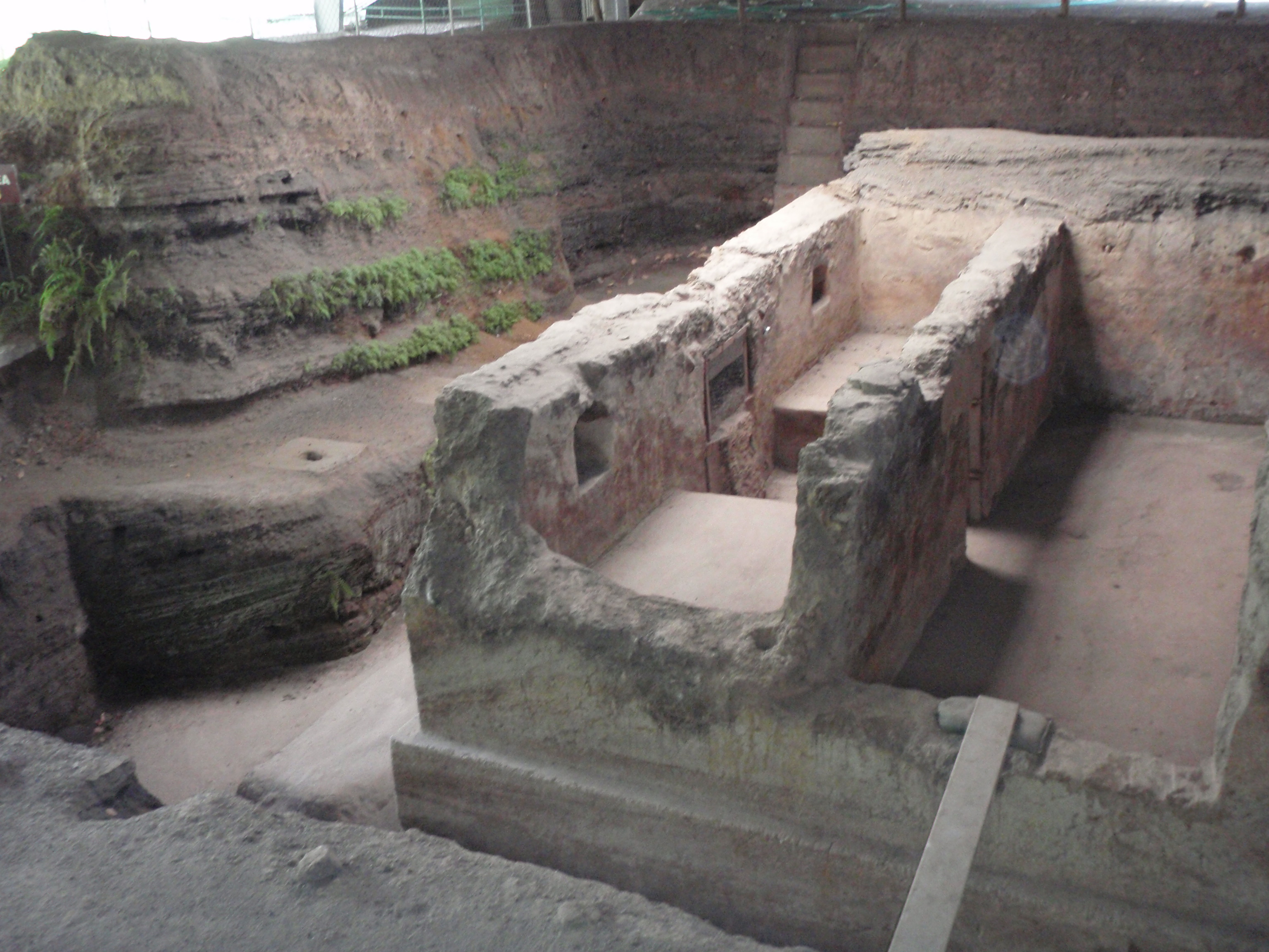 Remains of Maya village of Joya de Ceren buried by volcanic eruption around A.D. 600